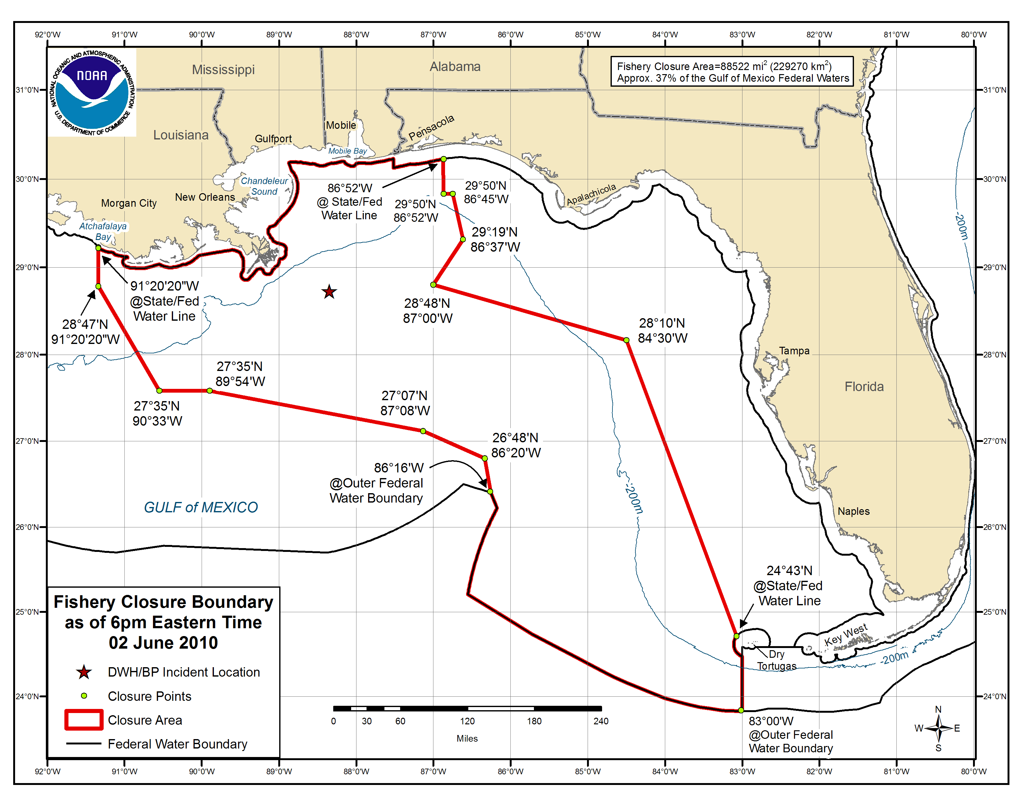 Map entitled "Fishery Closure Boundary as of 6pm Eastern Time 02 June 2010"